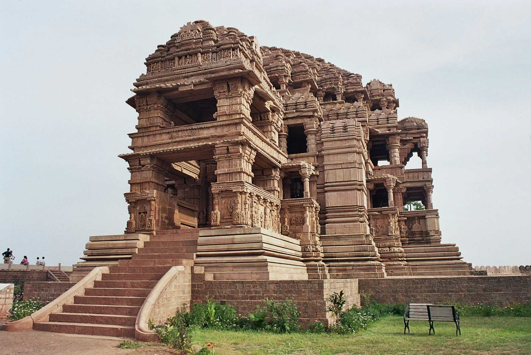 Sas Bahu Temple, Gwalior Picture take by Jishu Jacob